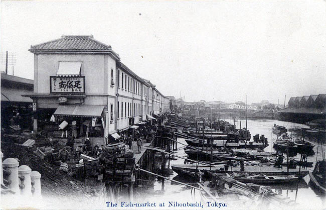 Nihonbashi Bridge